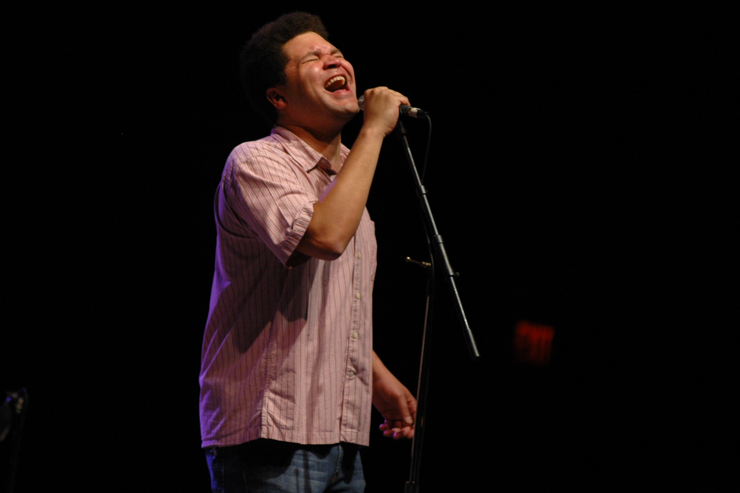 Mike Mattison of Scrapomatic, and the Derek Trucks Band opening for Derek and Susan at Mizner Park.